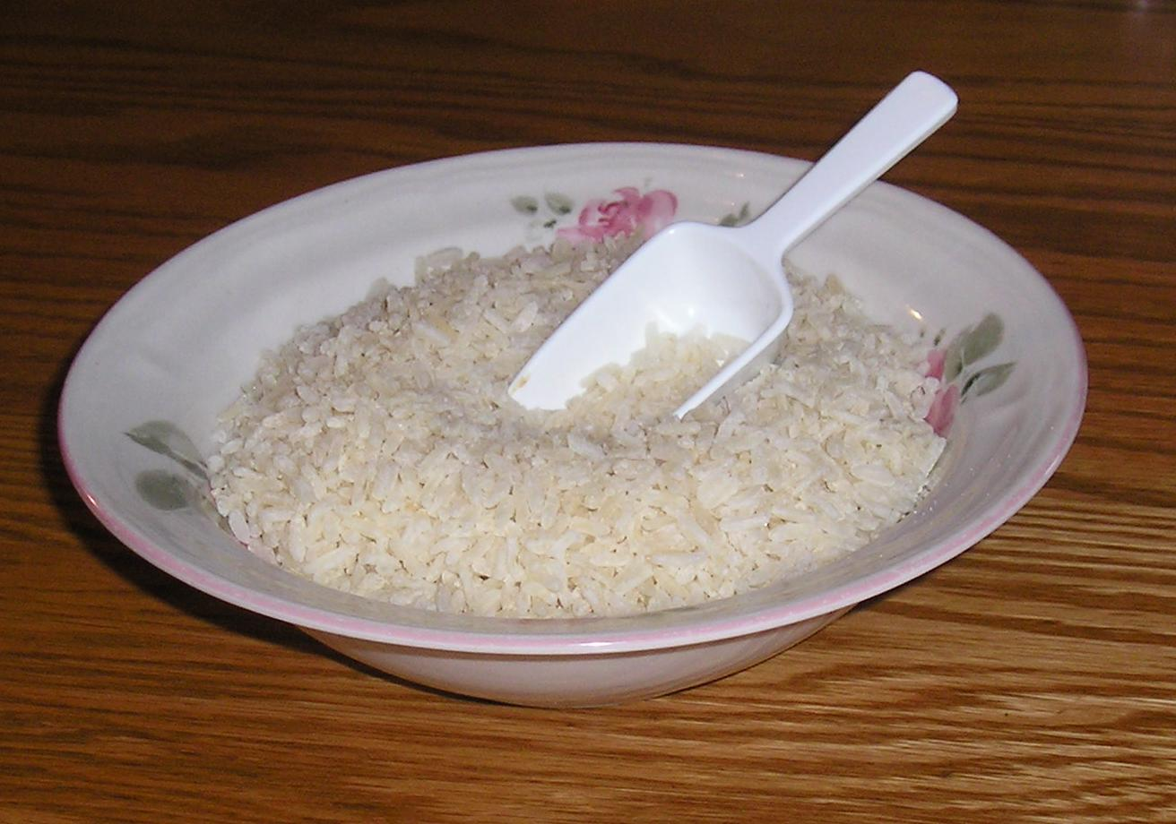 Small kitchen transfer scoop in a bowl of rice